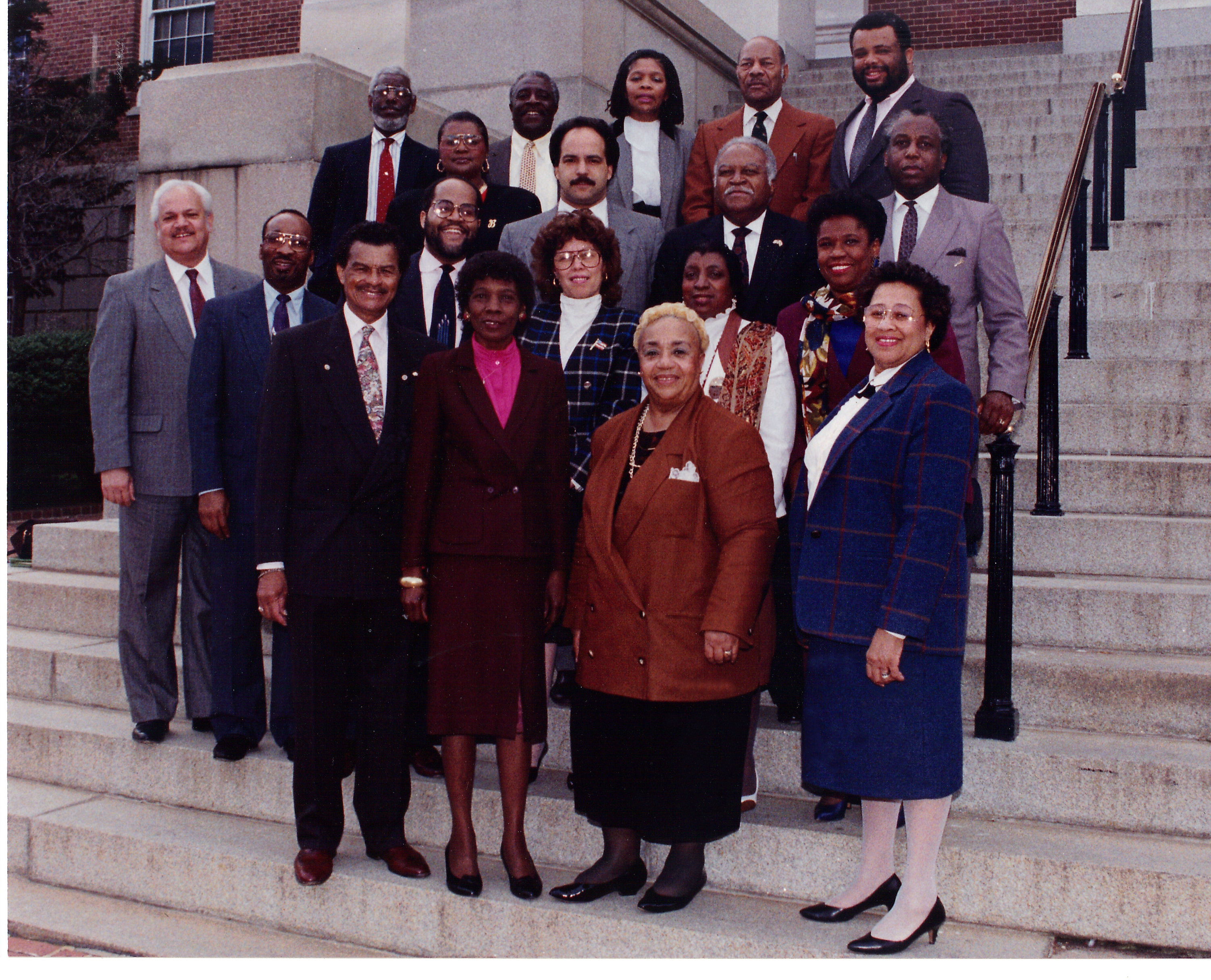 Elected members of the Maryland state legislature who are African Americans